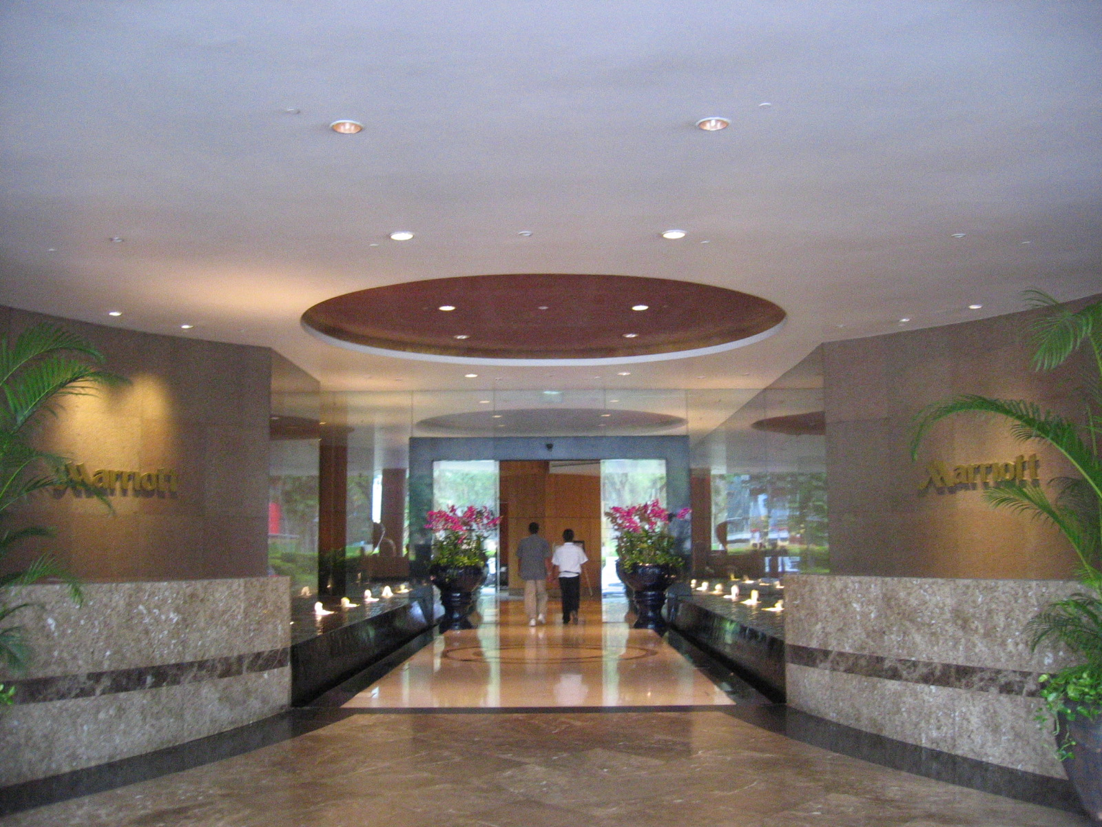 Marriott Singapore. Taken by Terence Ong in November 2006.